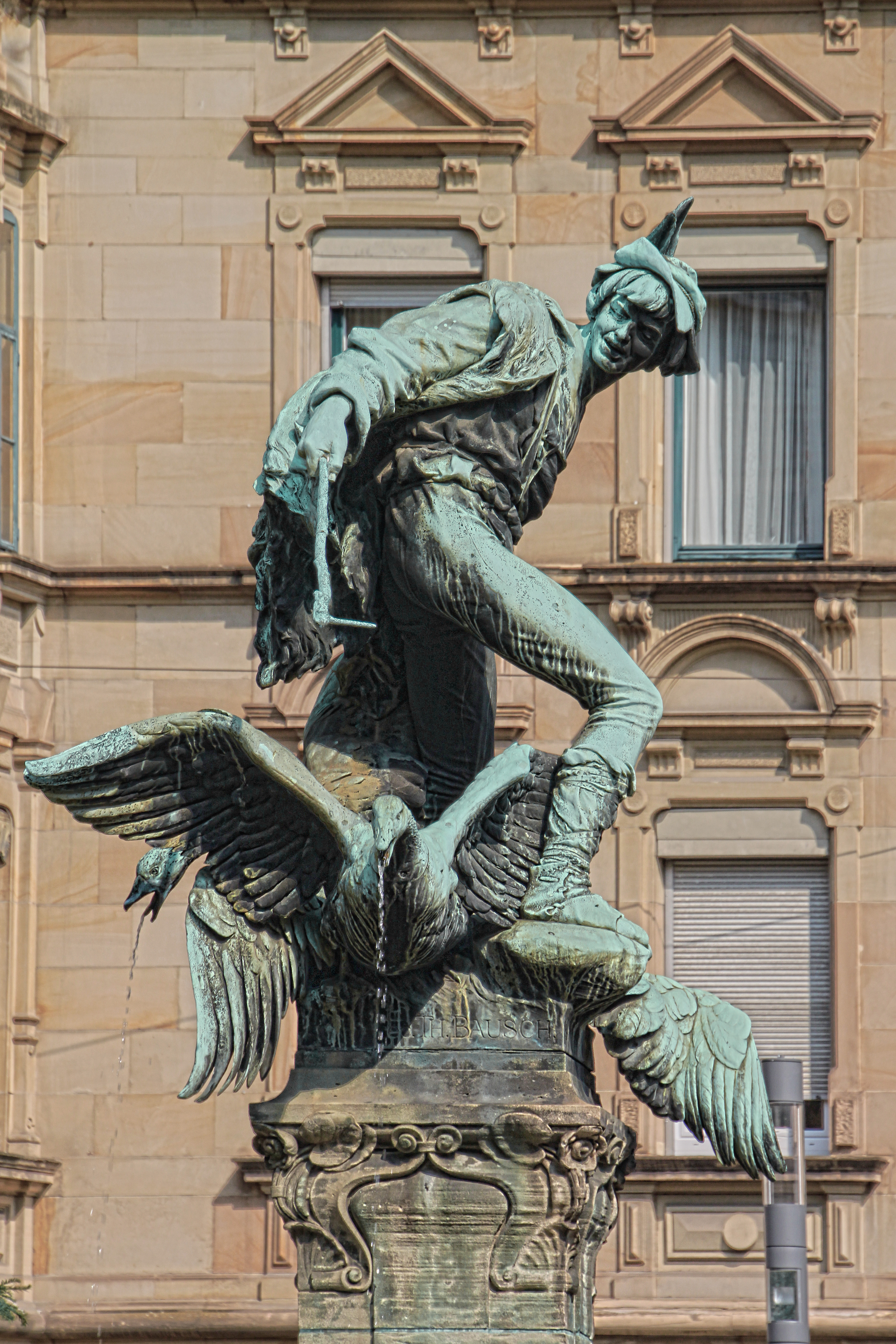 Gooseherd with his geese. Partial view of the Gänsepeterbrunnen in Stuttgart, Germany.